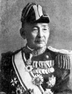 Vice Admiral Satô Tetuharô